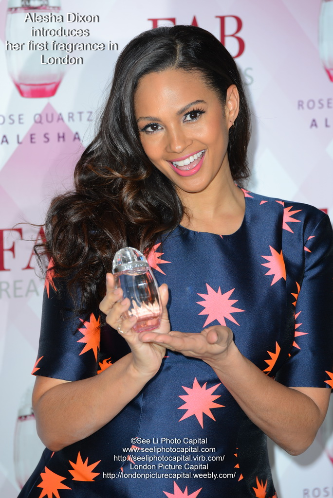 Alesha Dixon at her fragrance launch 2014-01-08.